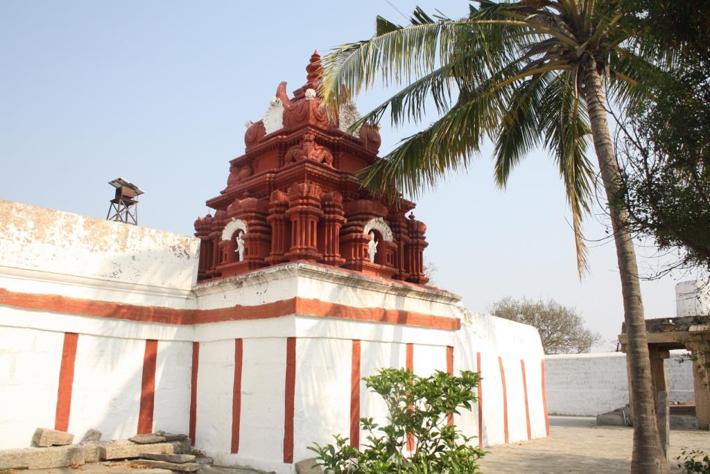 Karigahatta near Mysore